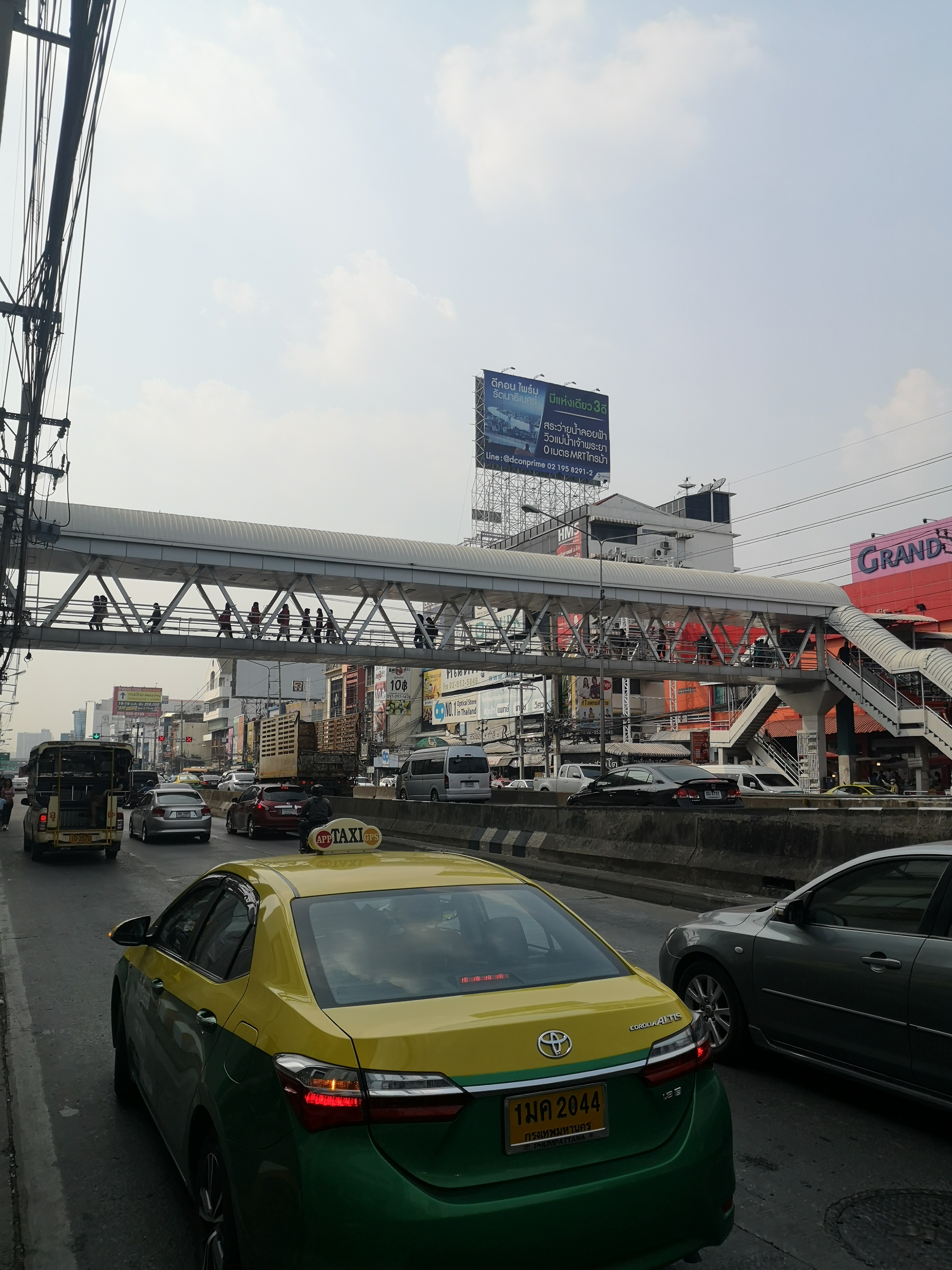 Thanon Ngam Wong Wan